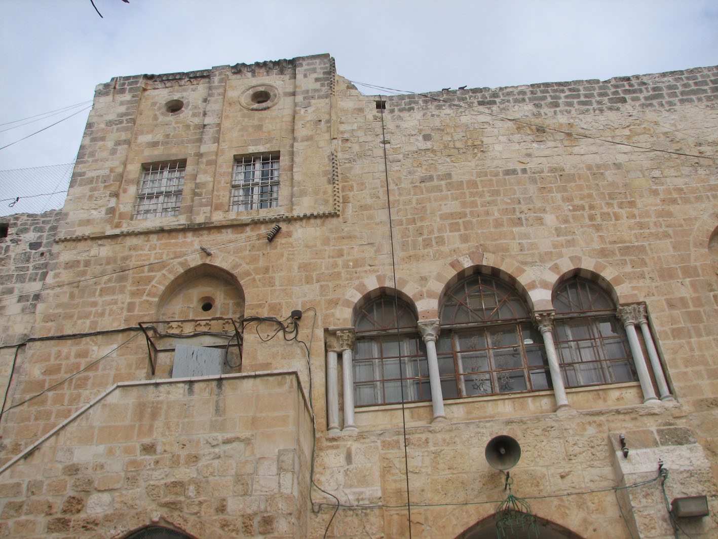 Al-Aqsa Mosque